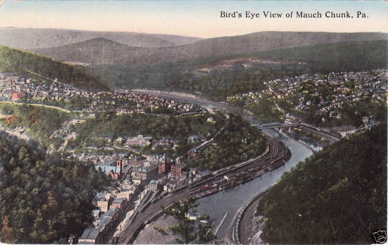 Postcard picture from 1915 of a "bird's eye view" of Jim Thorpe, Pennsylvania, then known as "Mauch Chunk".